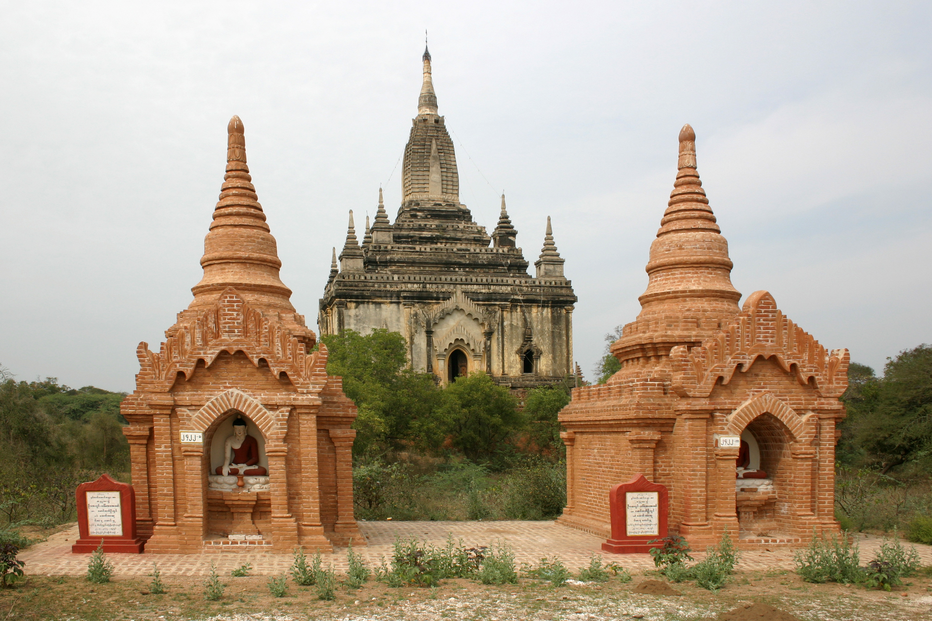 Shwegugyi temple, Bagan, Myanmar.